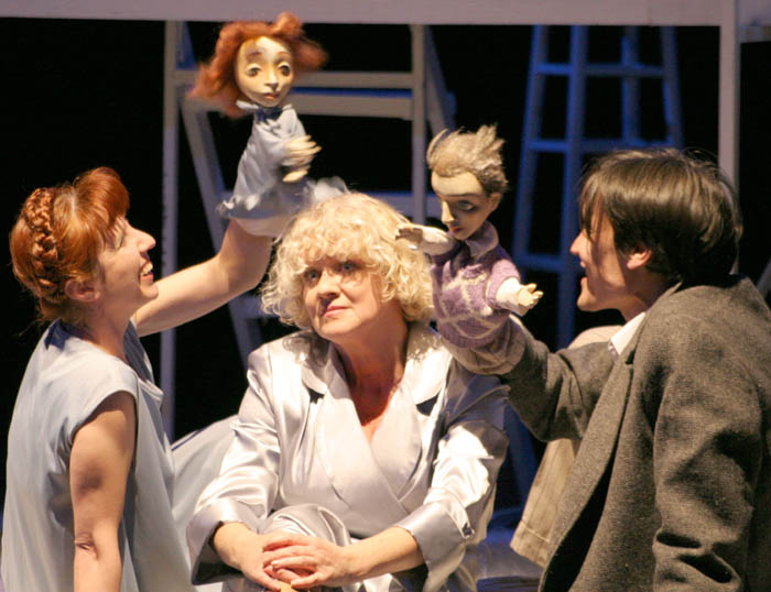 Performance Saratov Puppet Theatre "Teremok" «Glass Menagerie» based on the play by Tennessee Williams